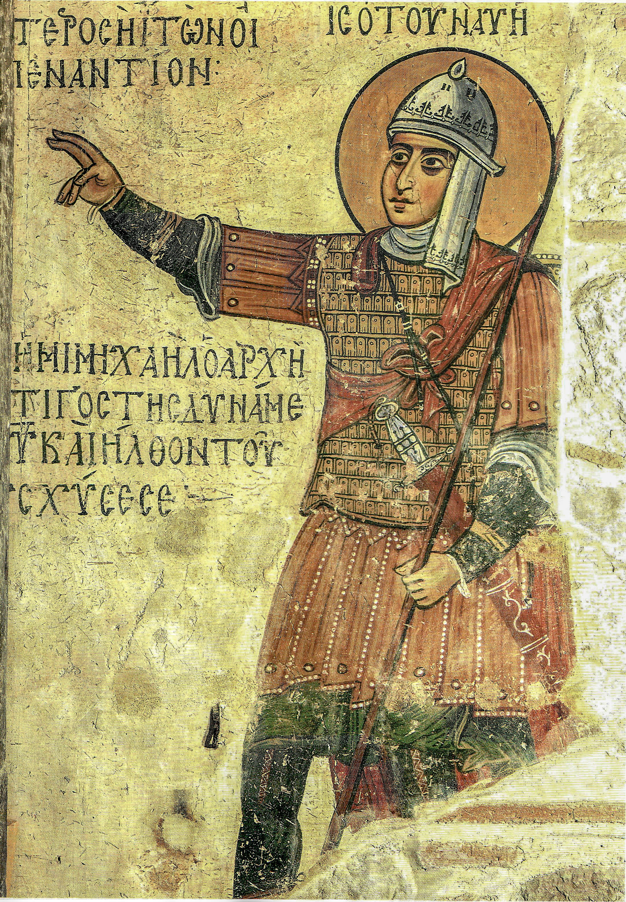 Fresco from Hosios Loukas (St. Lucas, greek: Ὅσιος Λουκᾶς) monastery in Boeotia, Greece.